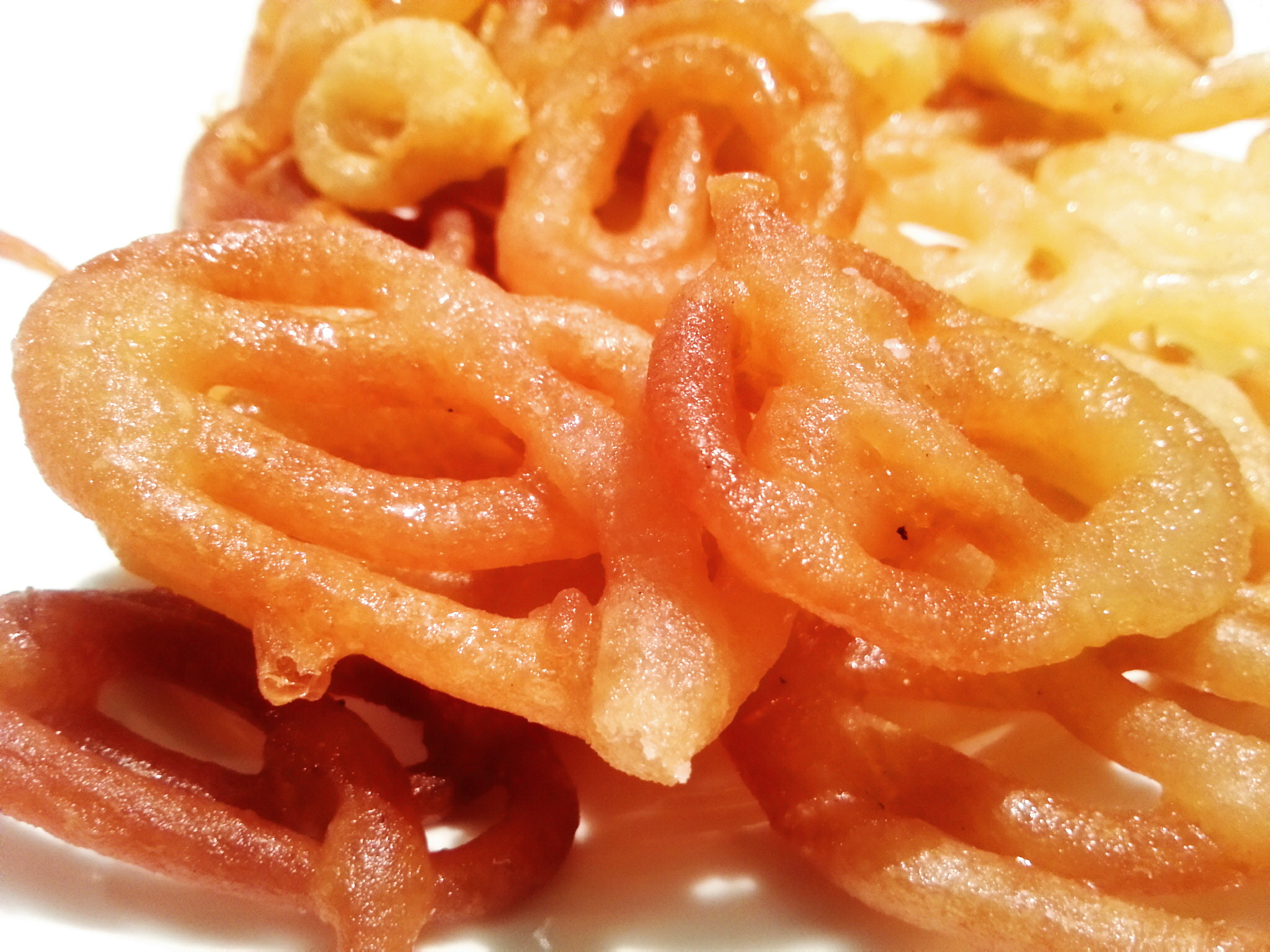 Jilapi is a traditional and popular Bangladeshi sweetmeat. The photo was taken amid a Bengali New Year Celebration Party in Dhaka, Bangladesh on 13 April 2014.